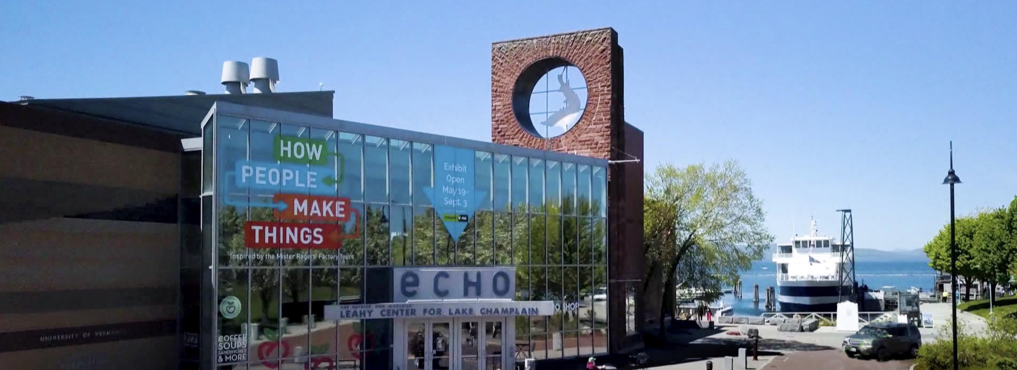 ECHO, Leahy Center for Lake Champlain in Vermont